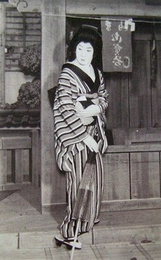 Shōyarō Hanayagi (1894–1965) as Yamatoya O-Chiyō, in the 1938 production of Yushima Mōde.